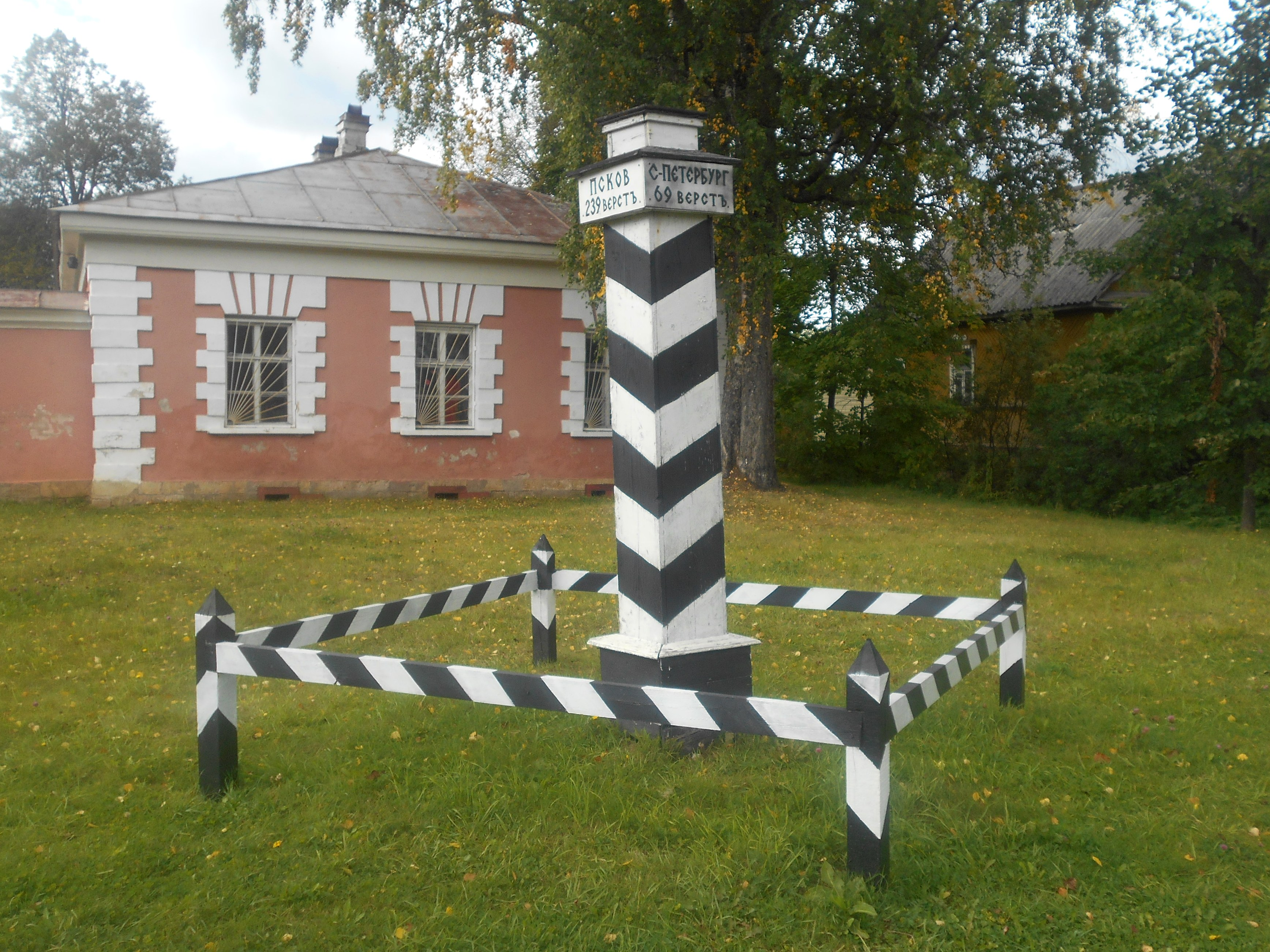 Signpost. The Station Master's House Museum. Vyra, Gatchinsky district